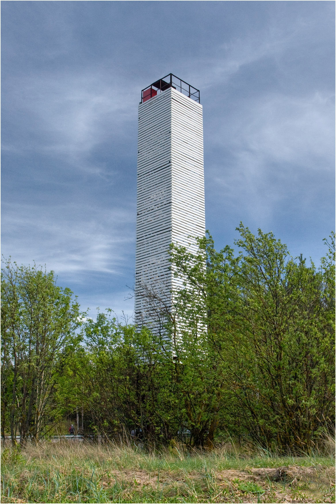 Vainupea light beacon